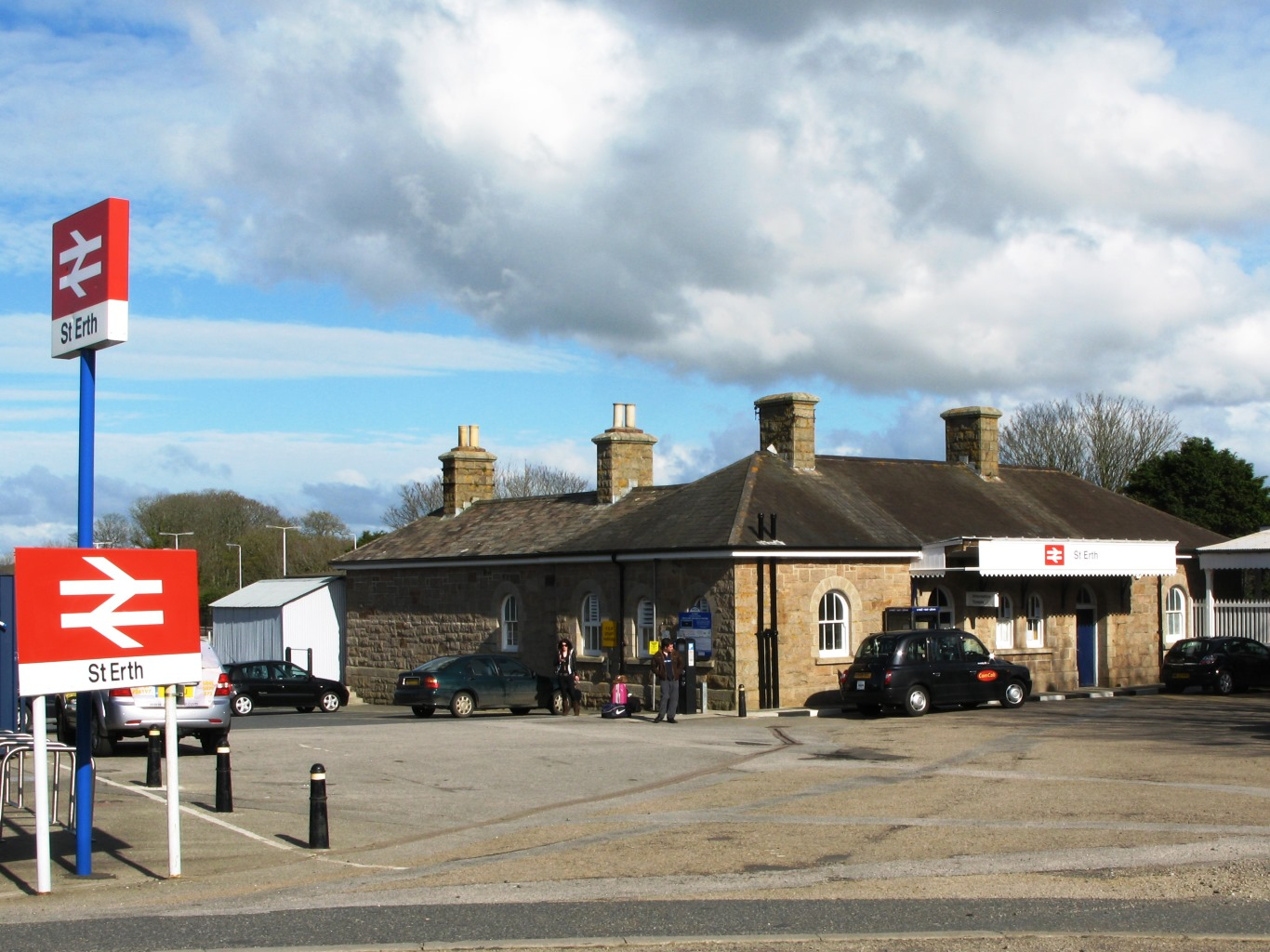 The railway station at St Erth, Cornwall, United Kingdom. Originally opened as "St Ives Road" station in 1852, this building replaced the first station when the St Ives branch line was opened in 1877. The view is from the station entrance looking eastwards.